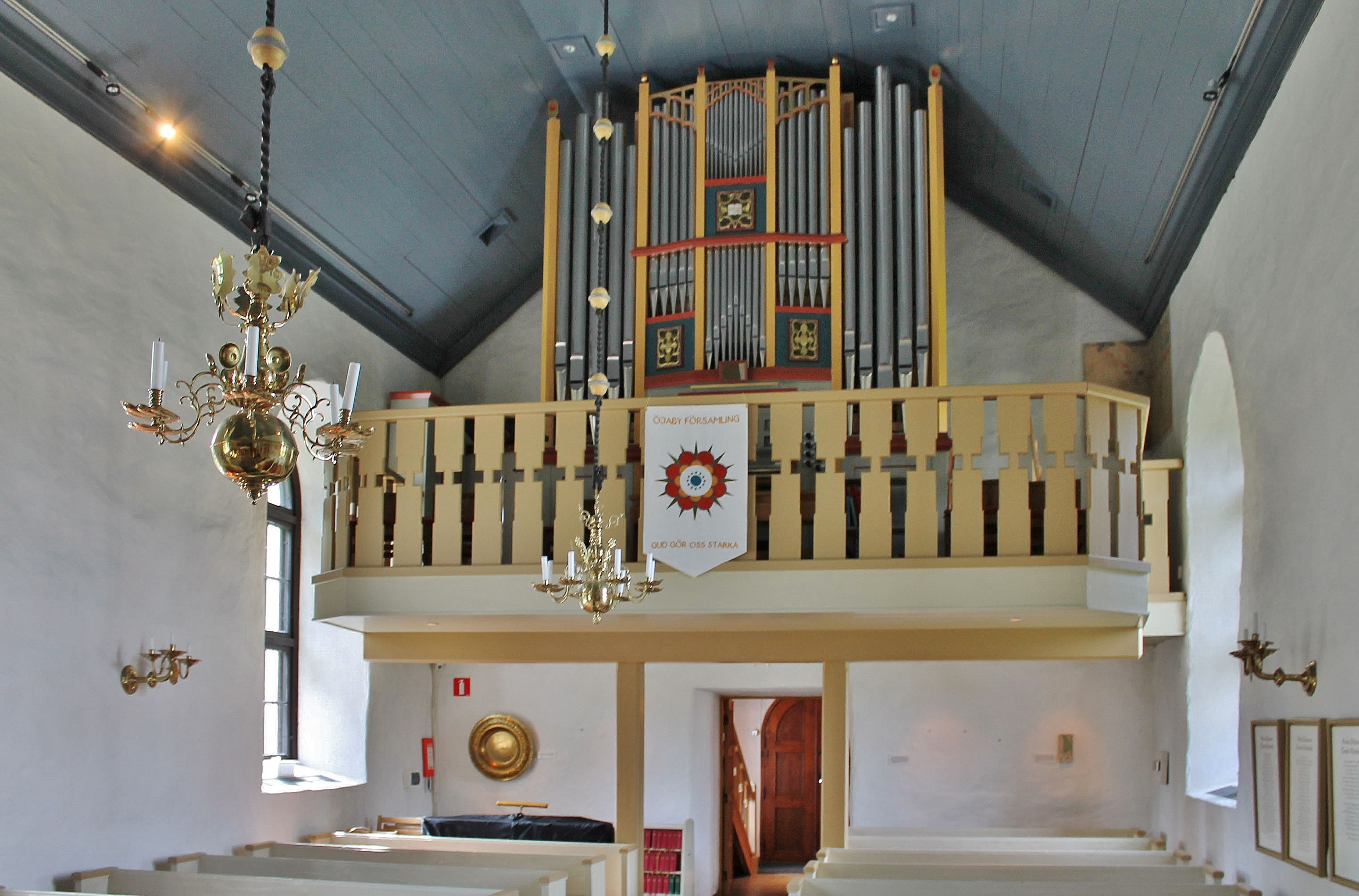 Öjaby Church.Organ loft